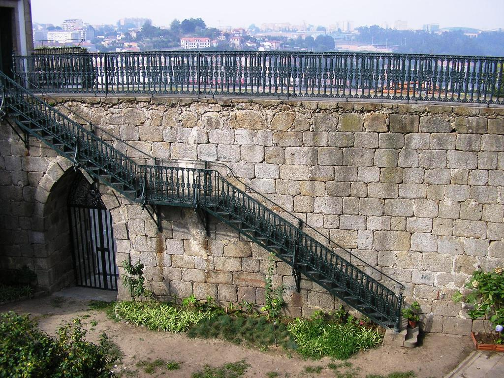 "Muralhas Fernandinas", medieval city walls in Porto, Portugal.